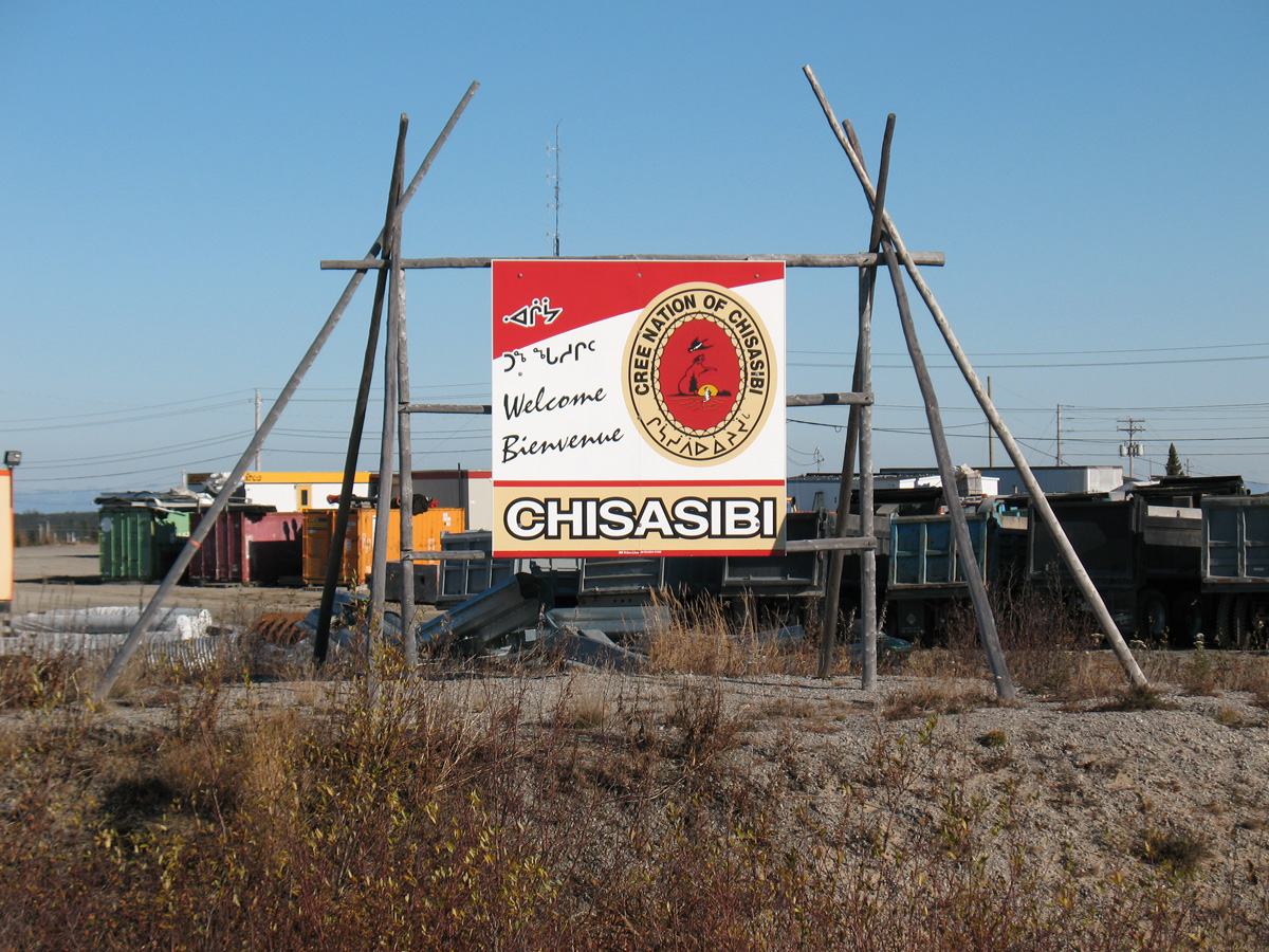 Welcome sign close up, Chisasibi, Quebec, Canada